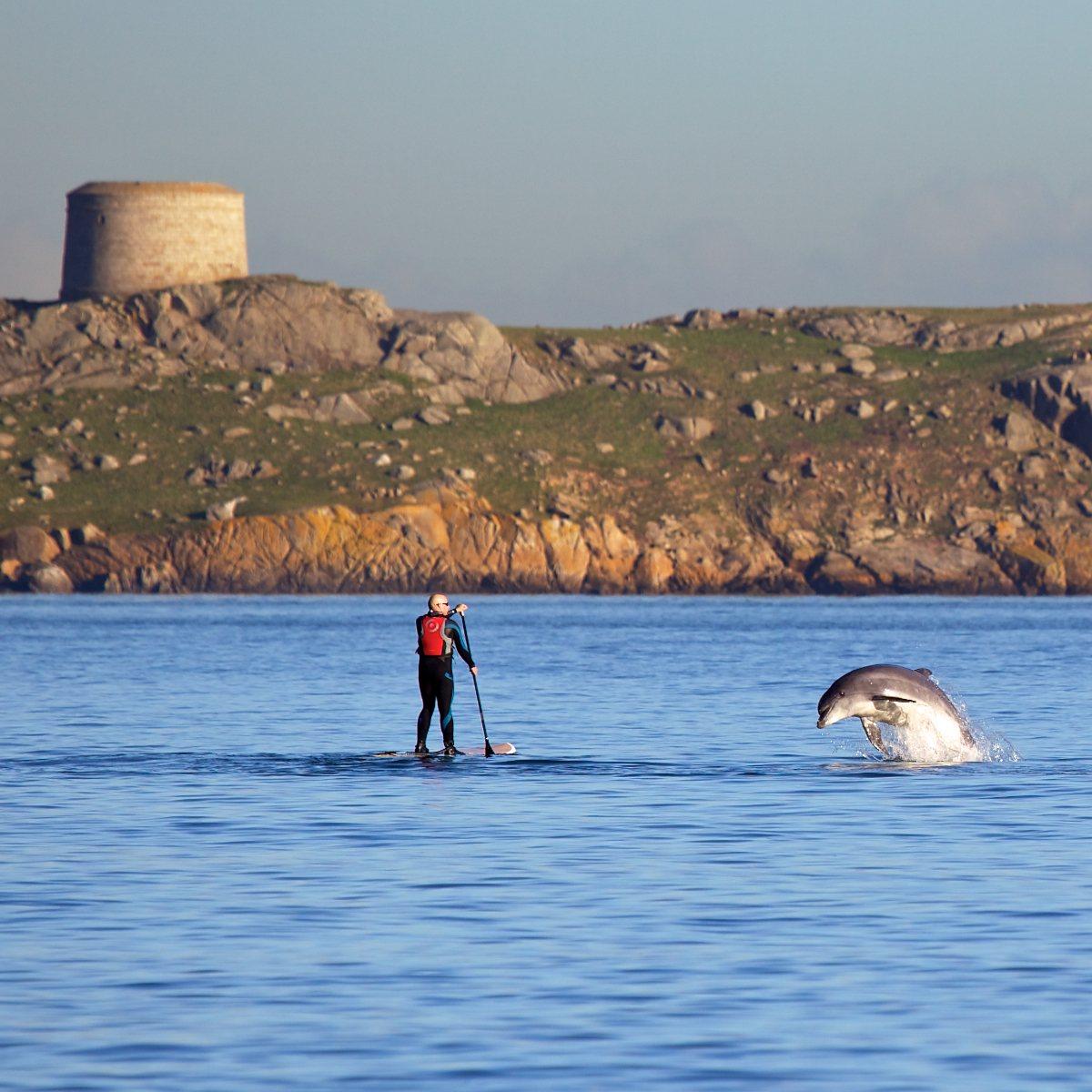 A photo by John Fahy of Dalkey Photos showing a bottlenose dolphin playing with a paddle boarder at Killiney Bay in front of Dalkey Island Paddle boards are used as the east coast gets no waves but the eastern seaboard people (kooks) love the surfing image.